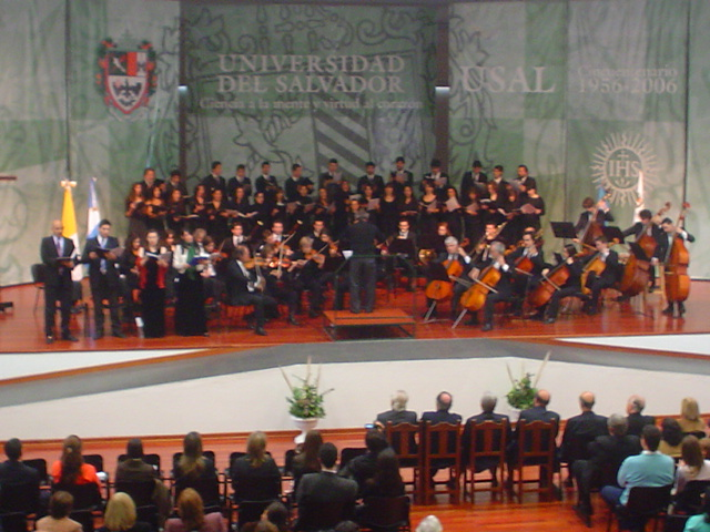 Coro y Orquesta de la USAL